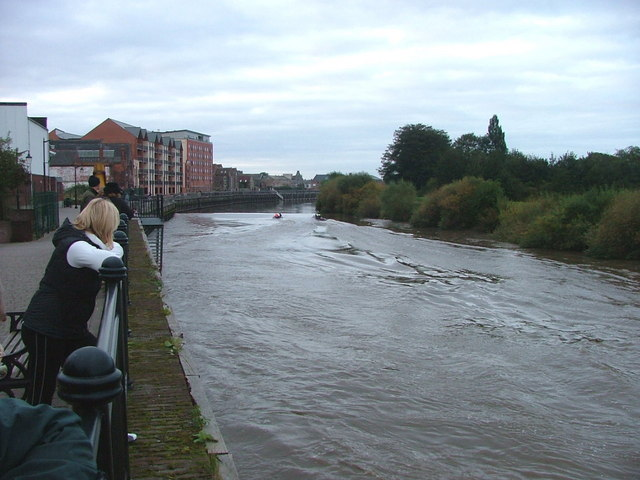 The Trent Aegir, Gainsborough A tidal bore travelling up the river Trent, named after the Norse God of the Ocean. The bore is seen moving away upstream